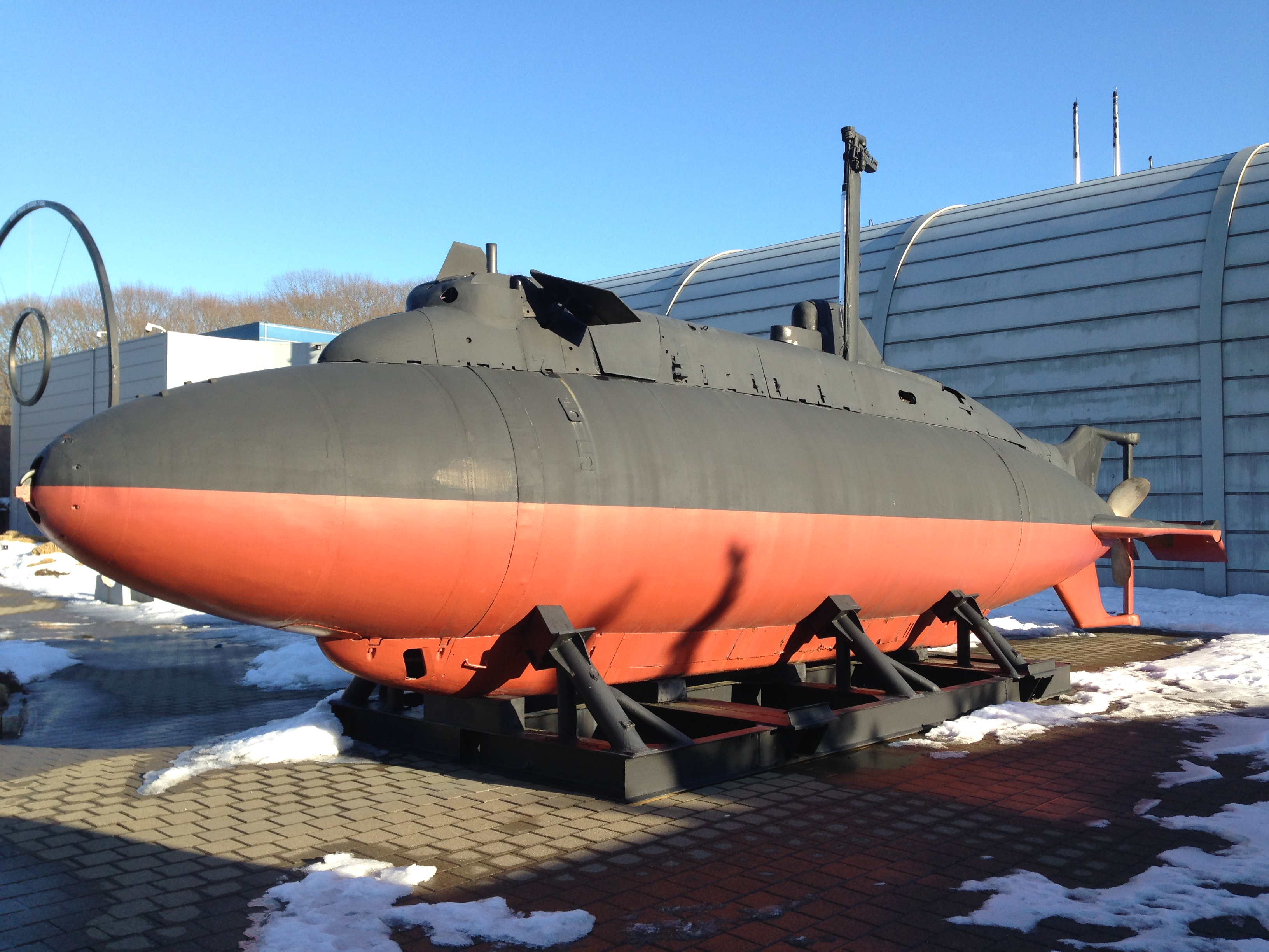 SS X-1 Midget Submarine at the Historic Ship Nautilus & Submarine Force Museum